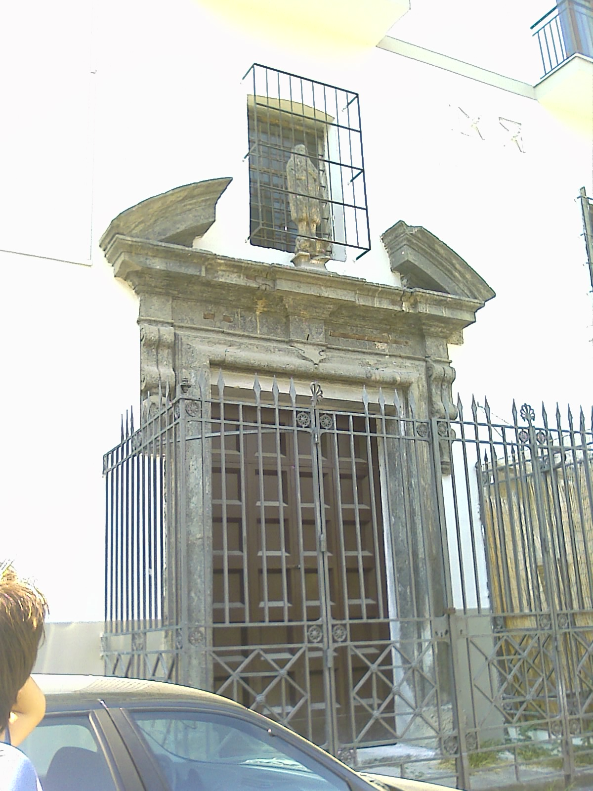 Chiesa di Sant'Onofrio a Capuana: Facade